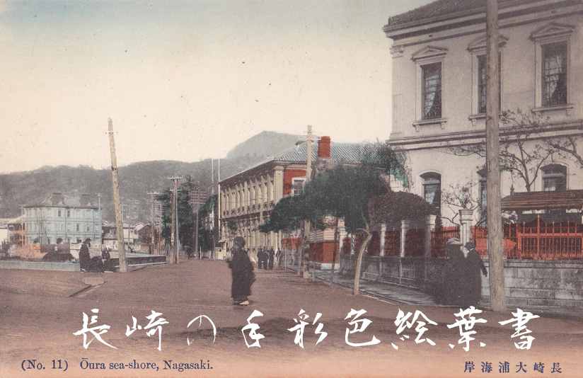 Japanese hand tinted postcard view of the Bund in Oura, Nagasaki